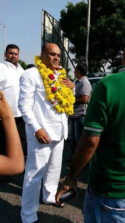 Zakir Hussain Gesawat is a congress leader and former MLA of Makrana Assembly of Rajasthan. He has elected as MLA of Makrana in 2008. He is currently President of Nagaur district Congress committee